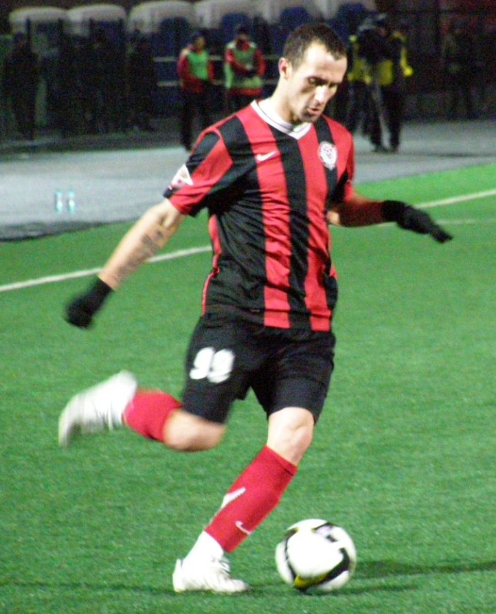 Predrag Sikimić in action for FC Amkar